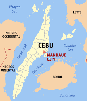 Map of Cebu showing the location of Mandaue